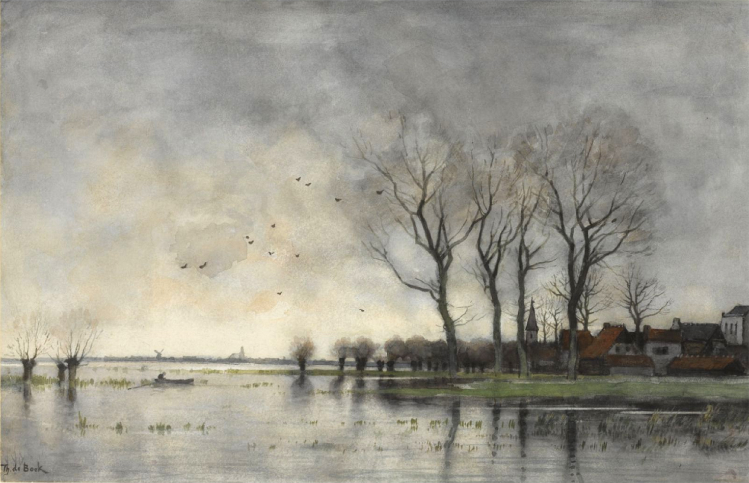 A town on the river Vecht 31.5 x 49 cm. signed l.l. watercolour and black chalk on paper